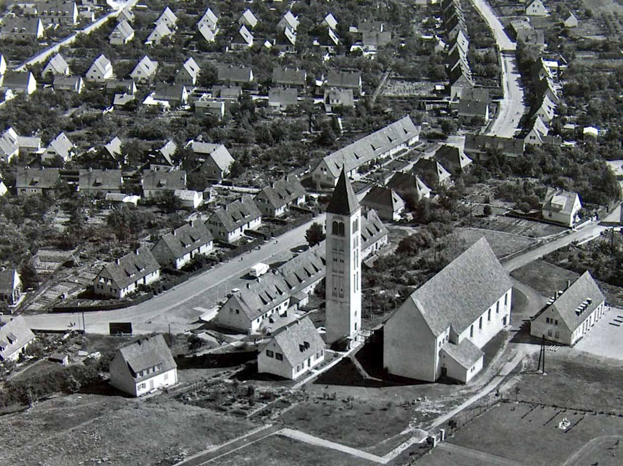 Bad Neustadt-Gartenstadt with the church of Kirche St. Konrad in 1960